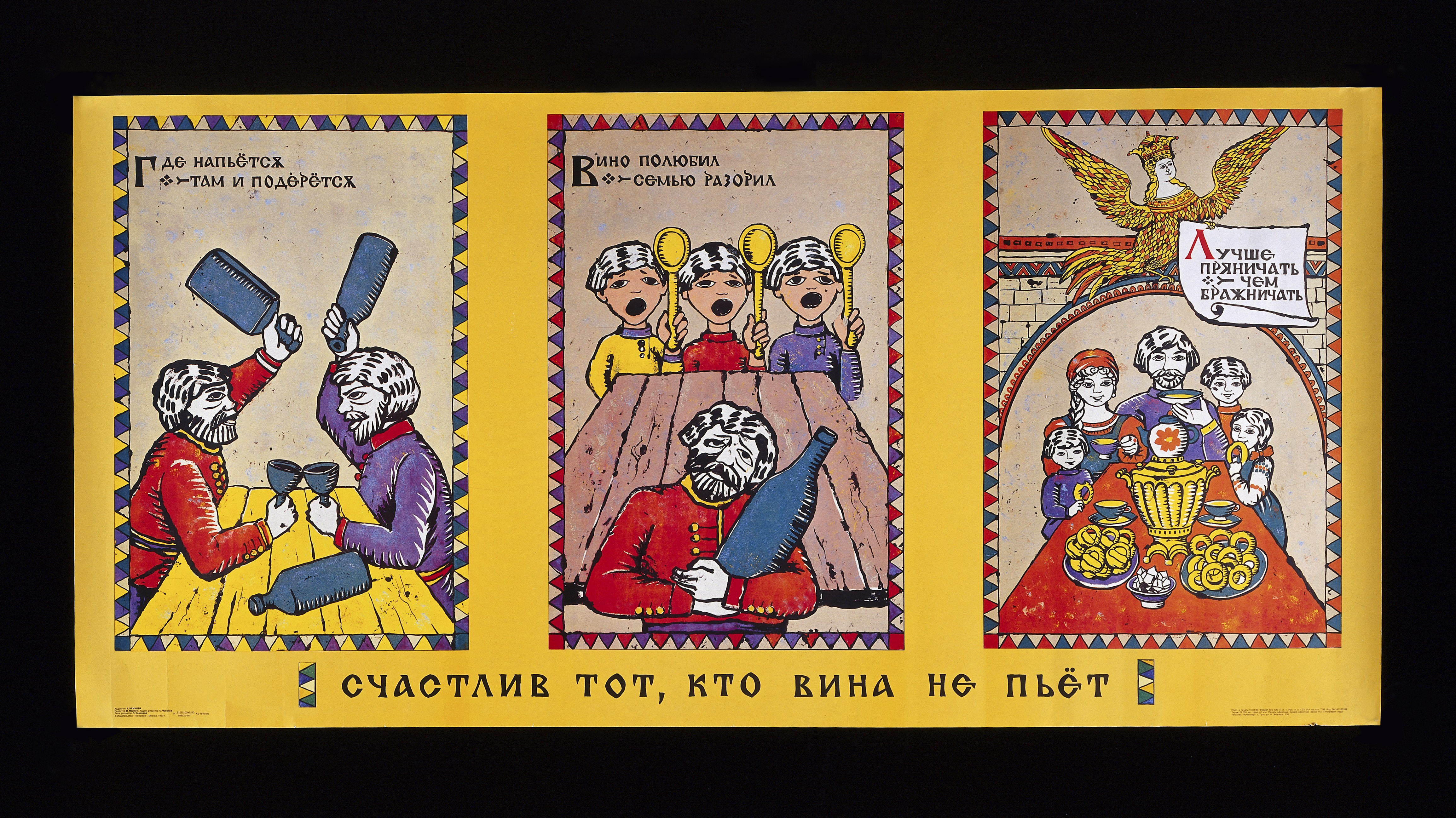 Blessed is he who does not drink wine Alcoholism in Russia: brawling and starvation as the results of drinking alcoholic drinks, contrasted with prosperity resulting from abstinence from alcohol. Colour lithograph by T. Nemkova, 1990. Iconographic Collections Keywords: epb/ 2669/b; lecoq, antoine; 1540; T. Nemkova